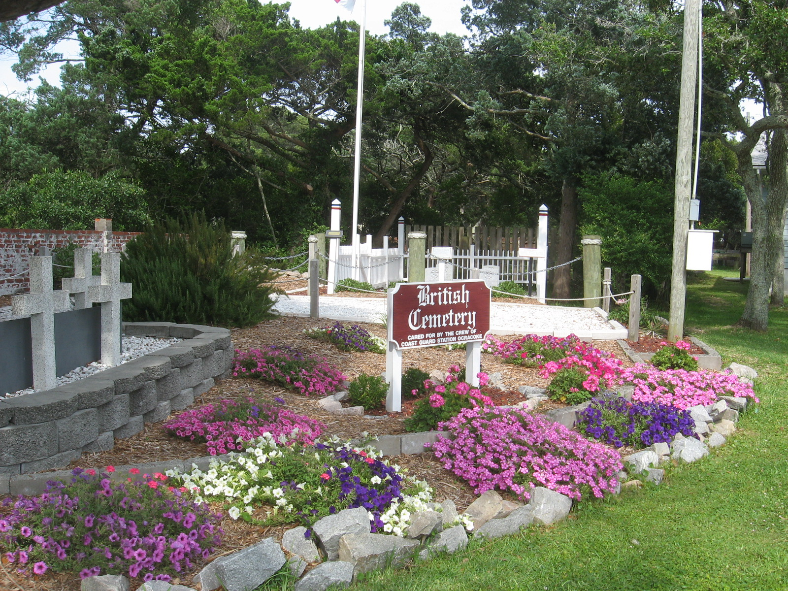 British Cem.